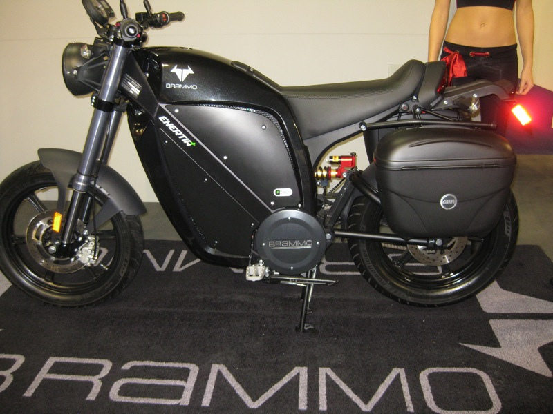 Brammo Enertia Plus electric motorcycle, taken at EICMA motorcycle show, Milan, Italy.